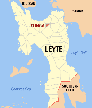 Map of Leyte showing the location of Tunga